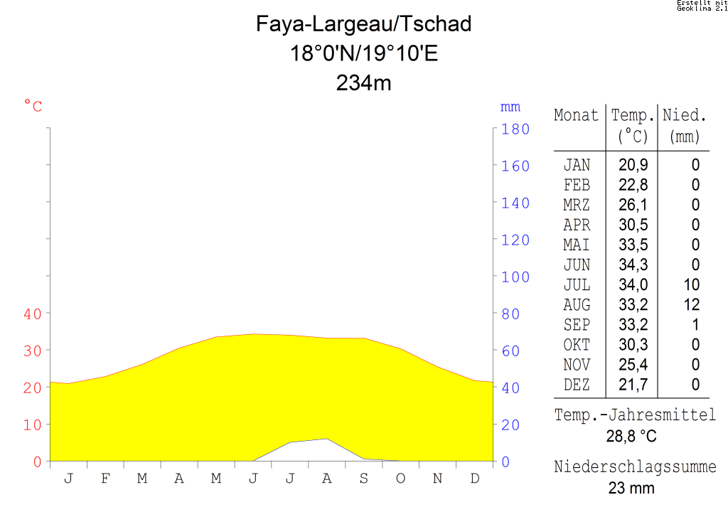 climate chart in the format by Walther and Lieth, metric, °Celsisus and millimeters, made with Geoklima 2.1